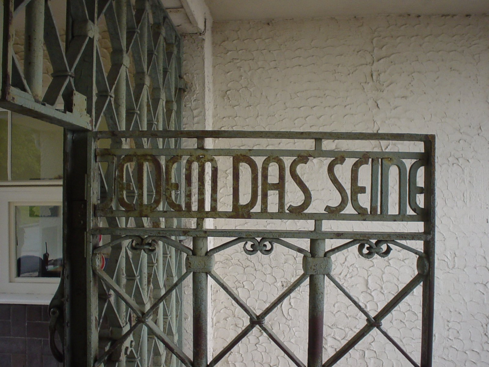 Gate of the KZ Buchenwald ("Jedem das Seine")